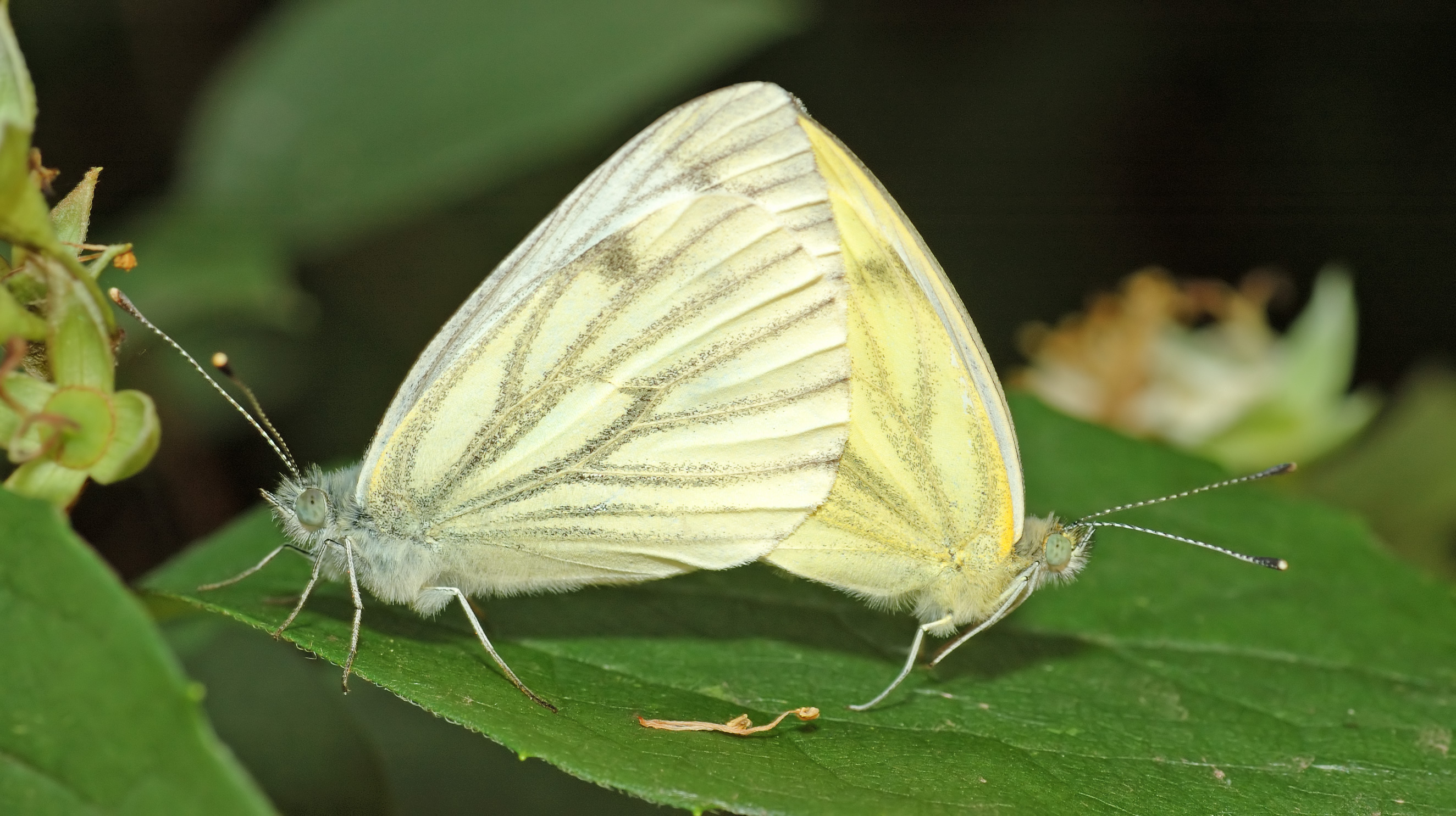 This image shows a Green-veined White butterfly couple (Pieris napi). Thanks to Olei for identifying these animals.